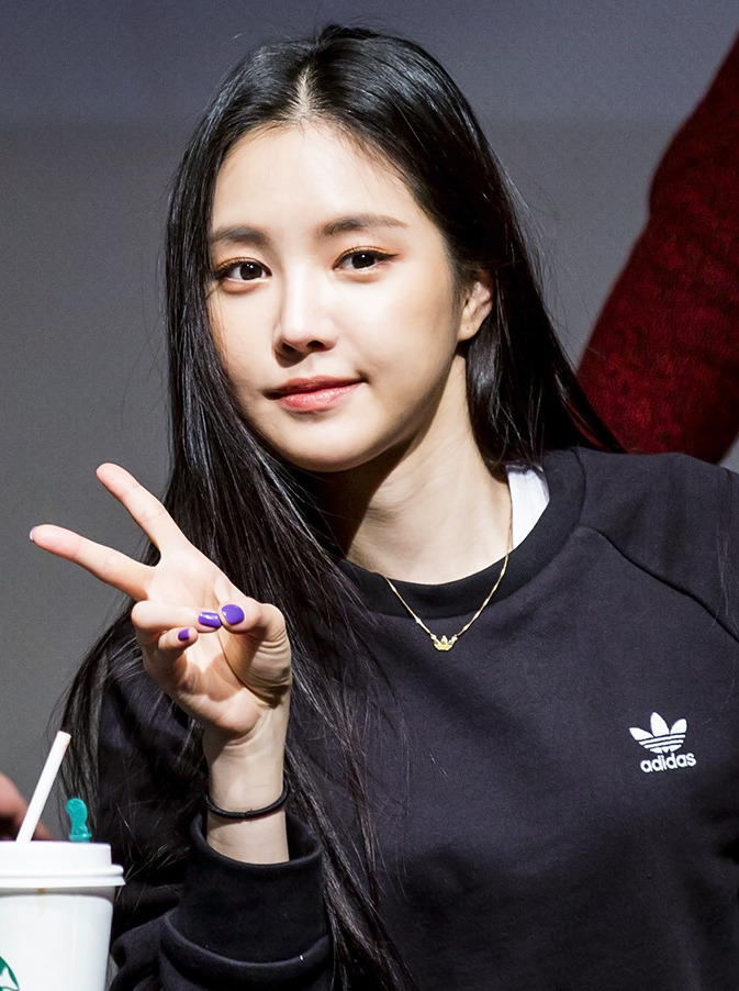 Son Na-eun at an Apink fan meeting in Sinchon.